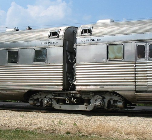 A closeup of the articulation used on the Nebraska Zephyr, preserved at the Illinois Railway Museum.